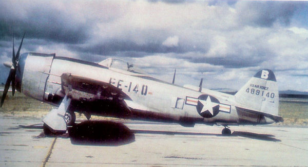 F-47N (Republic P-47N-1-RE Thunderbolt) 44-88140 of the 332d Fighter Group, Lockbourne AFB, Ohio, 1947